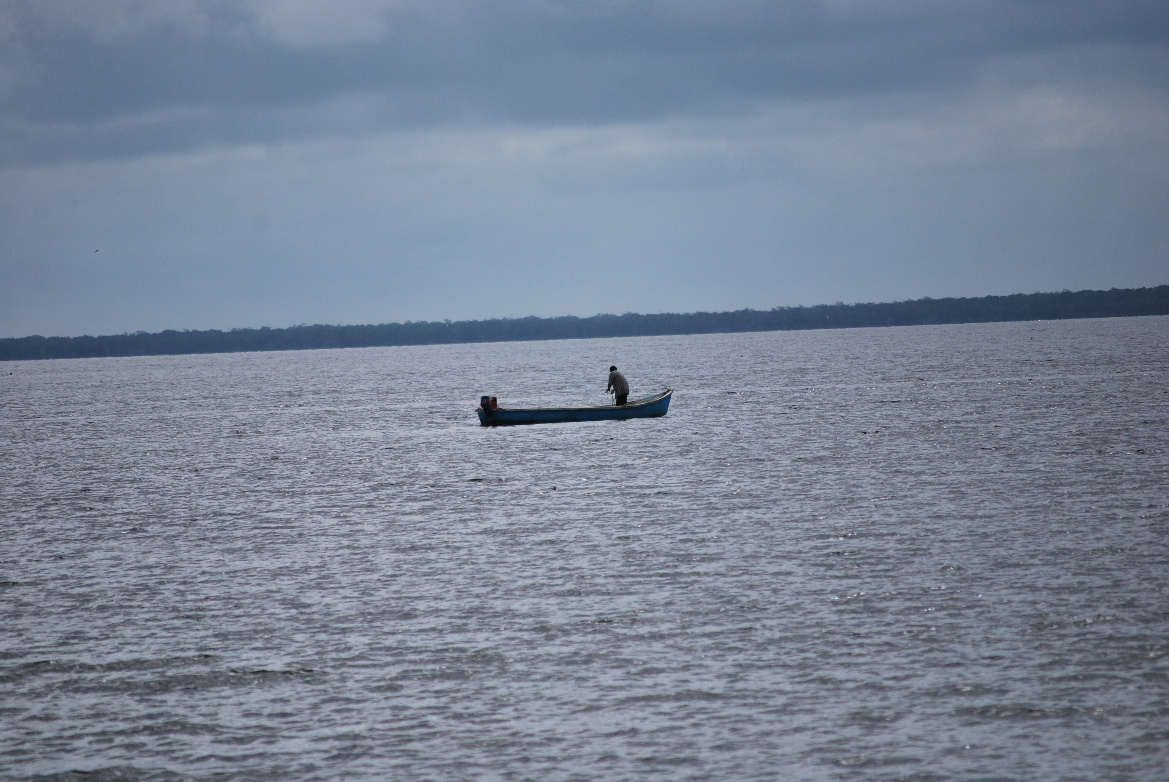 Fisherman in Del Carman lagoon just off Sanchez Magallanes, Tabasco, Mexico